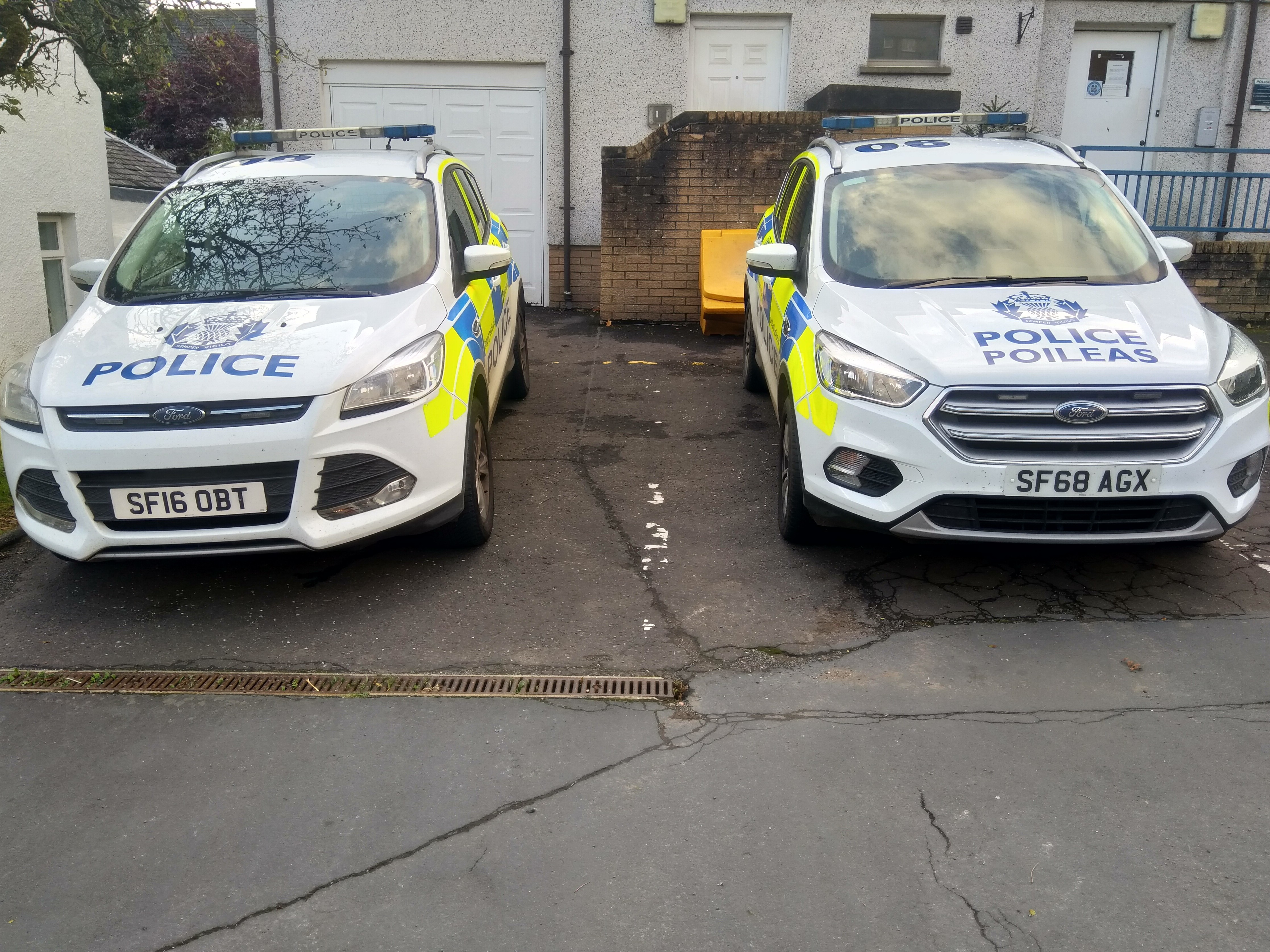 Police Scotland patrol vehicles showing monolingual and English/Gaelic bilingual (2017) logos.